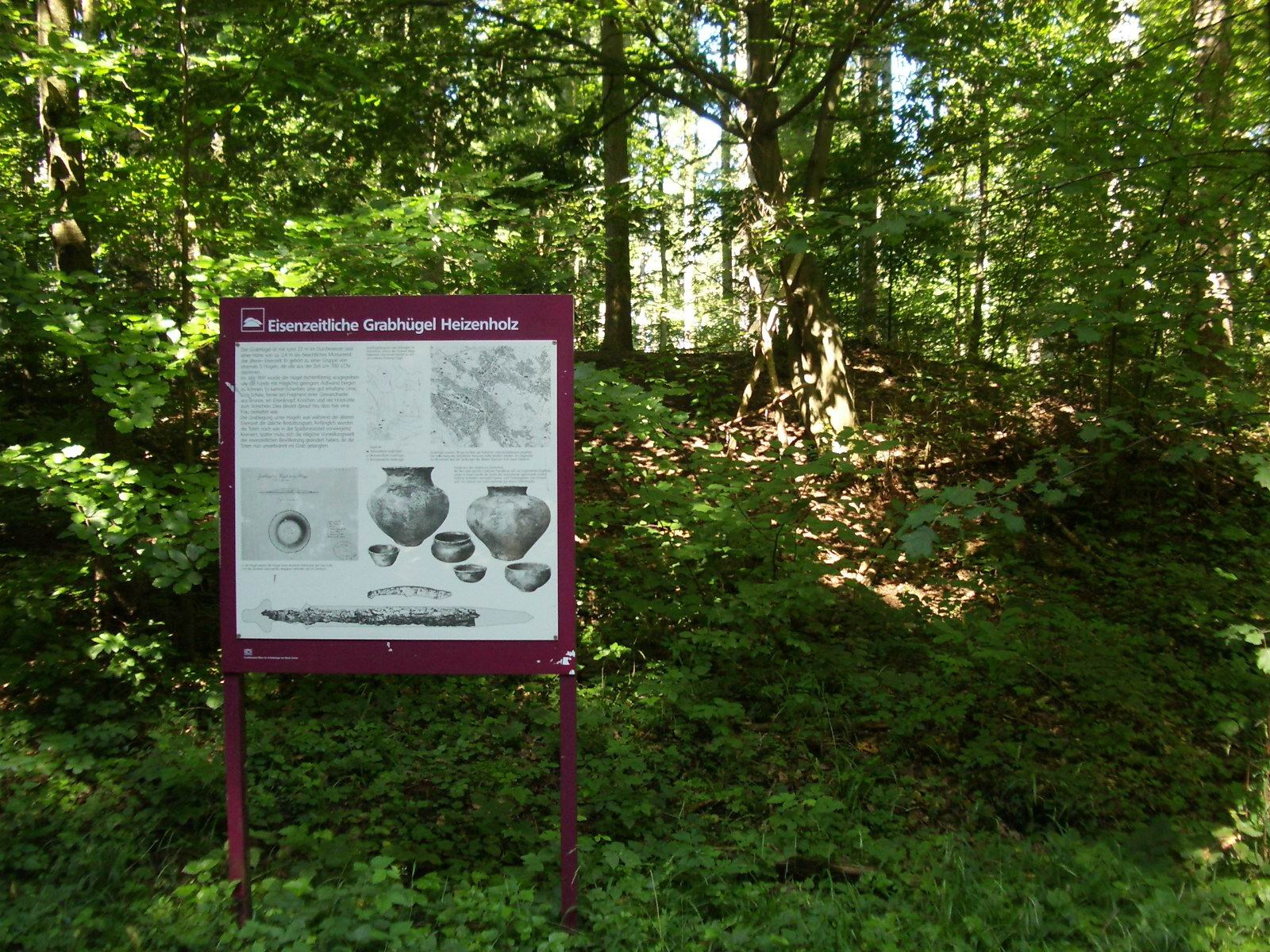 Höngg, Zurich, Switzerland